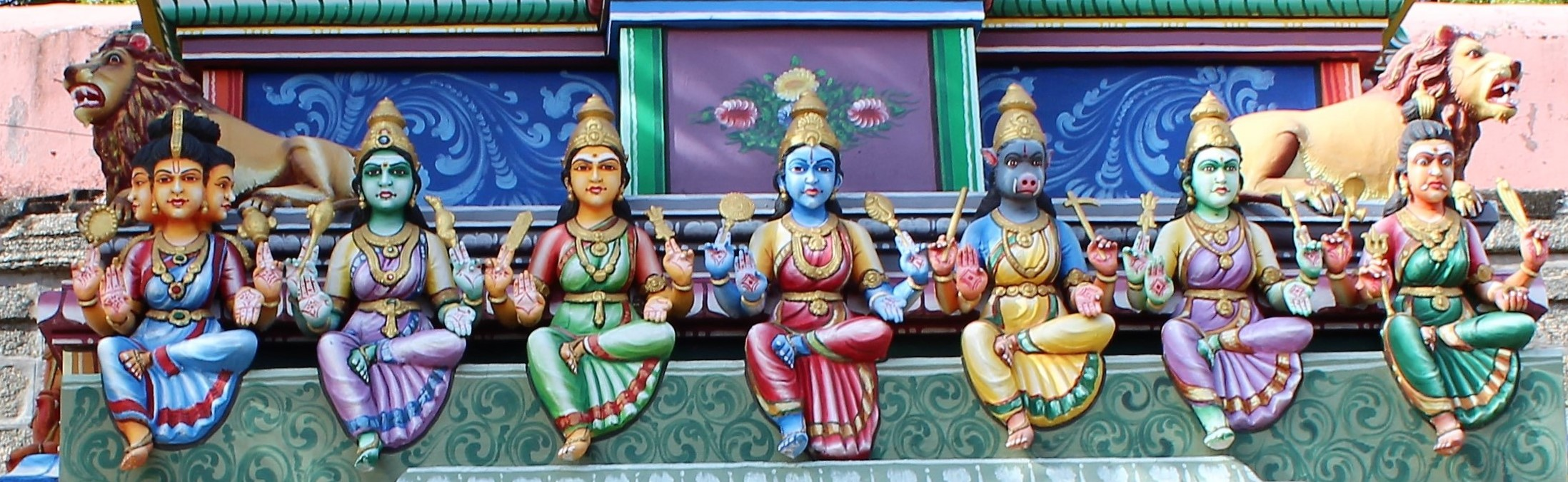 Thirupanjeeli Gneelivaneswarar temple